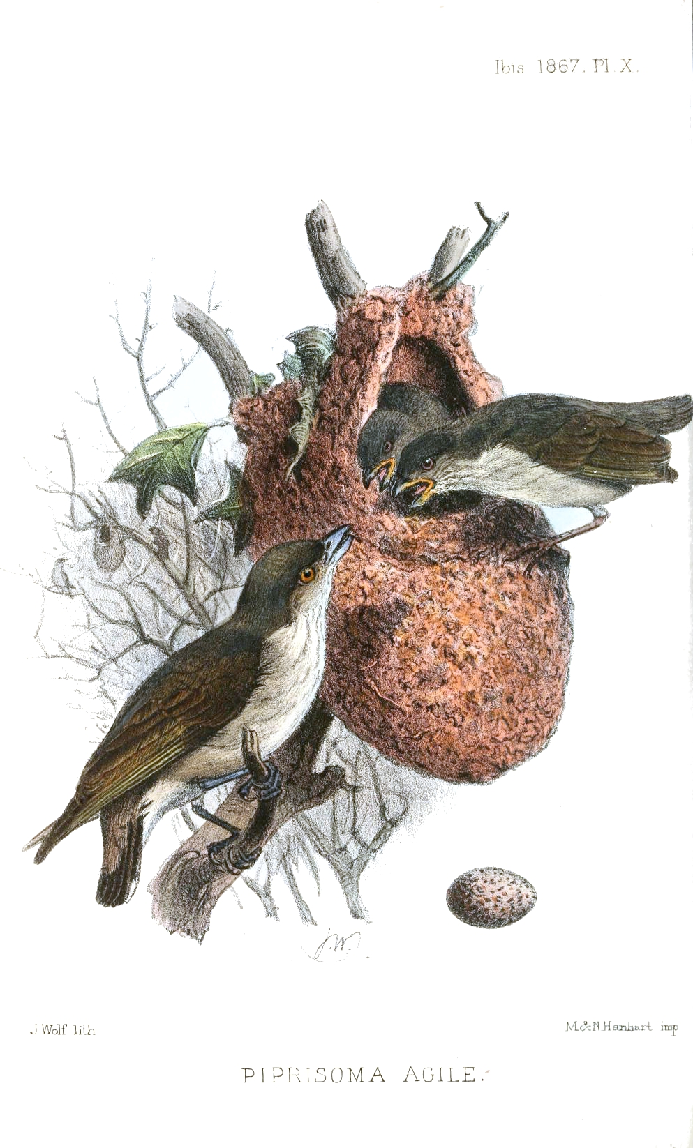 « Piprisoma agile » = Dicaeum agile (Thick-billed Flowerpecker) - at nest